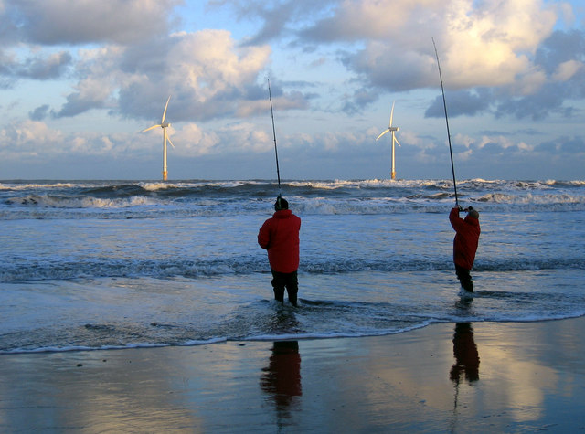 Fishermen & wind turbines from Blyth North Beach